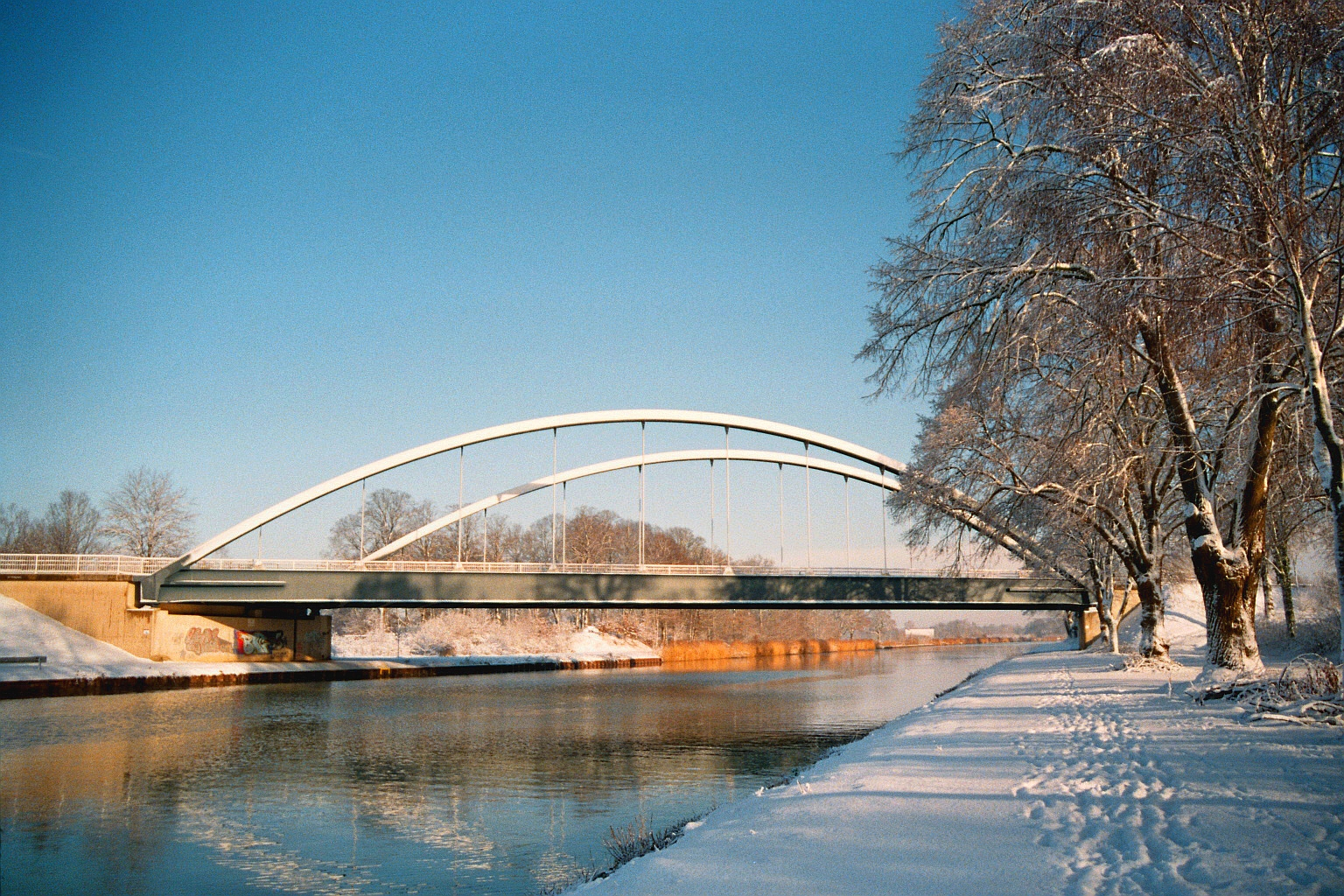 Mittellandkanal in Recke-Steinbeck, Kreis Steinfurt, North Rhine-Westphalia, Germany.